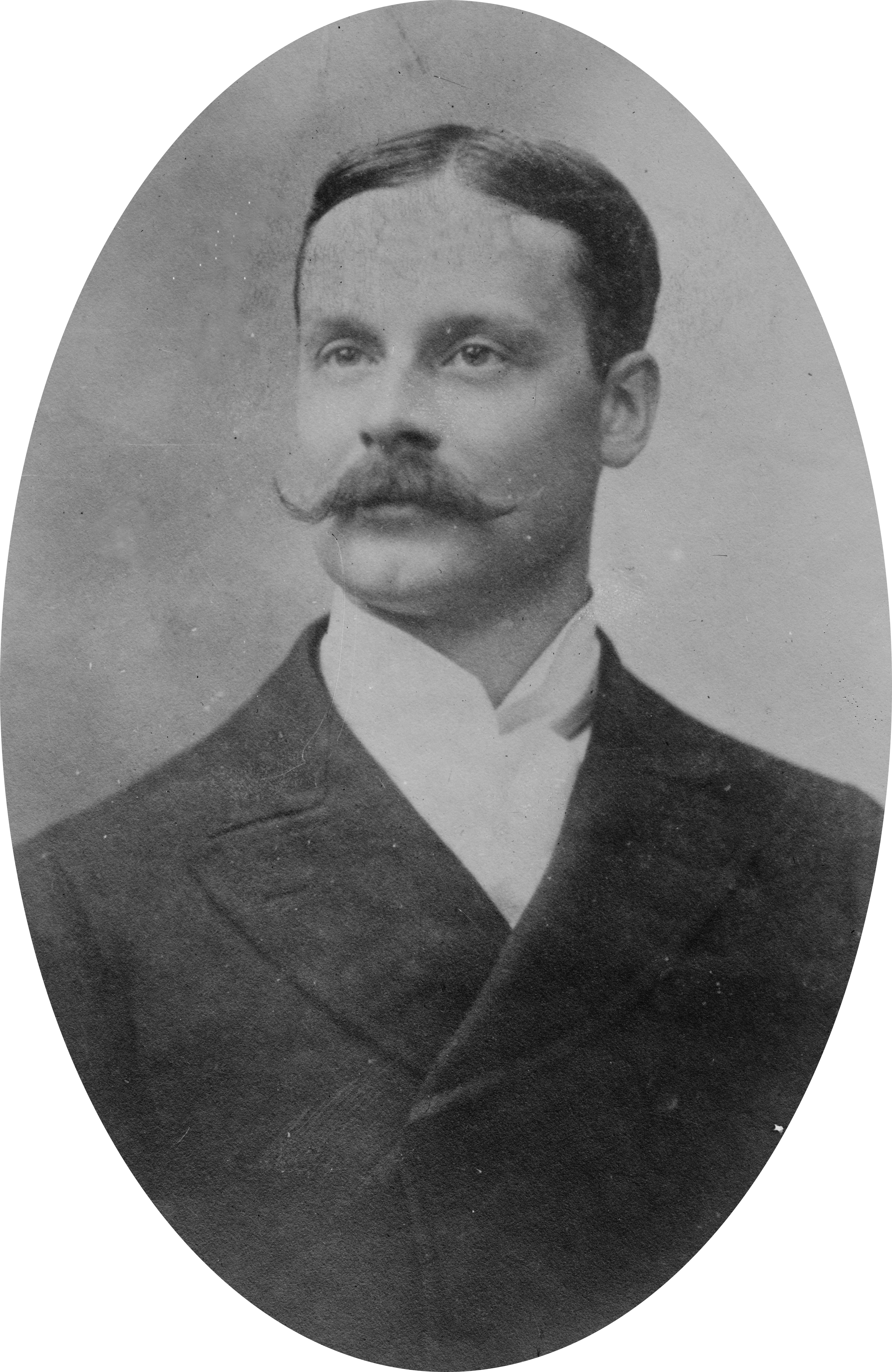 Roland Burnham Molineux portrait